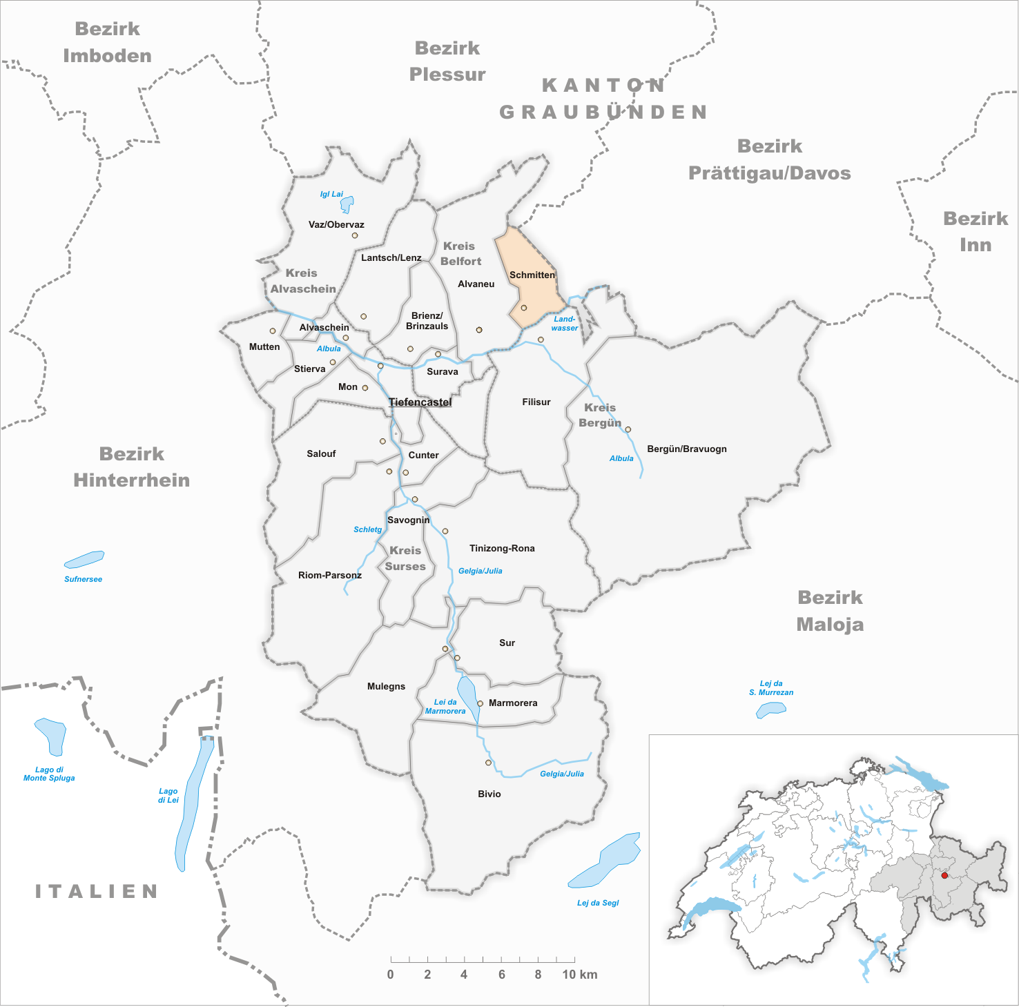 Municipality Schmitten